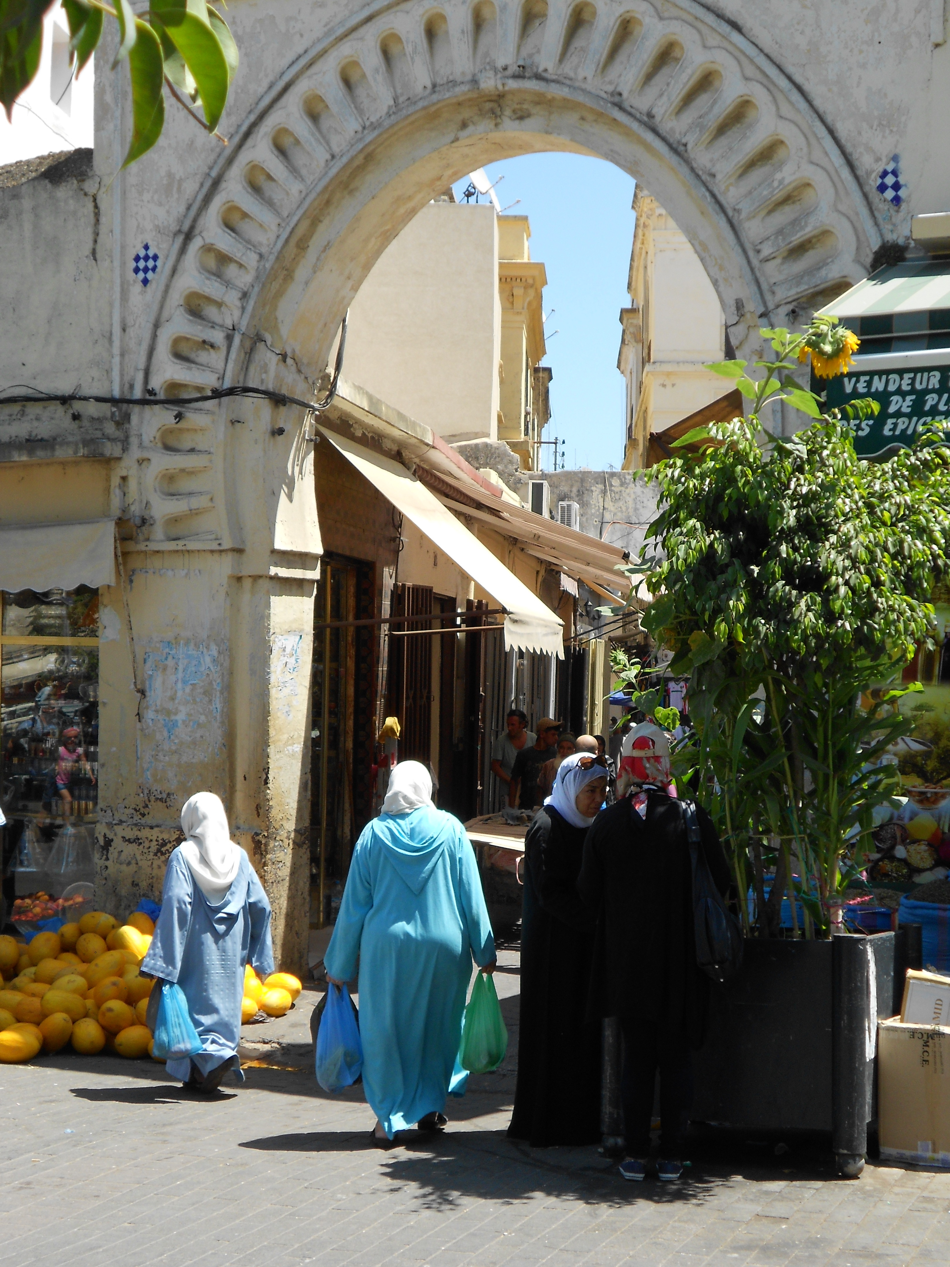 Gate from the Grand Souk to the Medina, Tangier. Next to the Mendoubia Gardens.